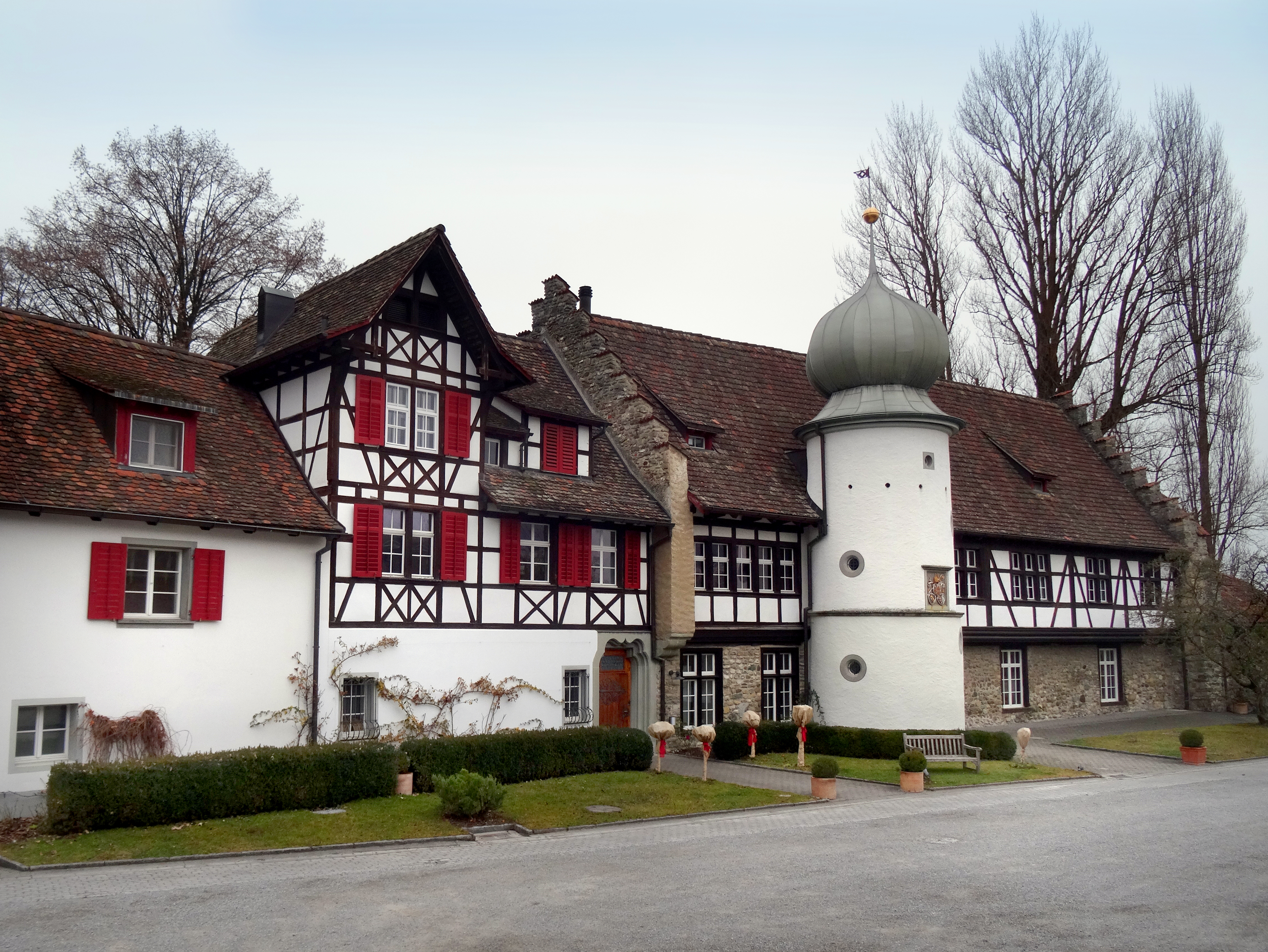 Refektorium of former Feldbach convent in Steckborn, Switzerland